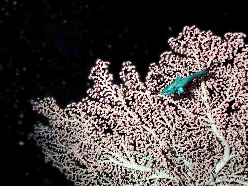 Grenadier (Coryphaenoides sp.) in front of a bubblegum coral (Paragorgia arborea) on the crest of the Davidson Seamount at 1255 meters depth.